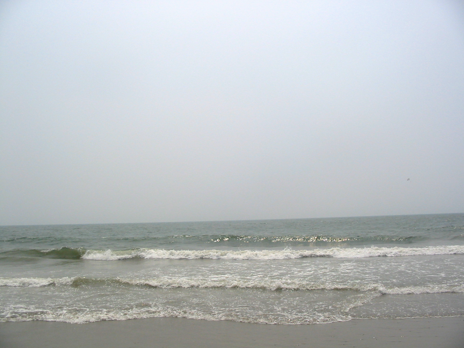 North Atlantic Ocean, taken from Surfside Beach, SC, 9 AUG 2007.